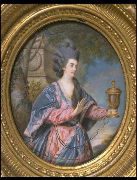 Portrait of Mary Anne Yates (1728–1787), English tragic actress, as Electra in Orestes by Voltaire.